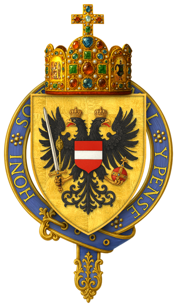 Frederick III, Holy Roman Emperor (not installed)